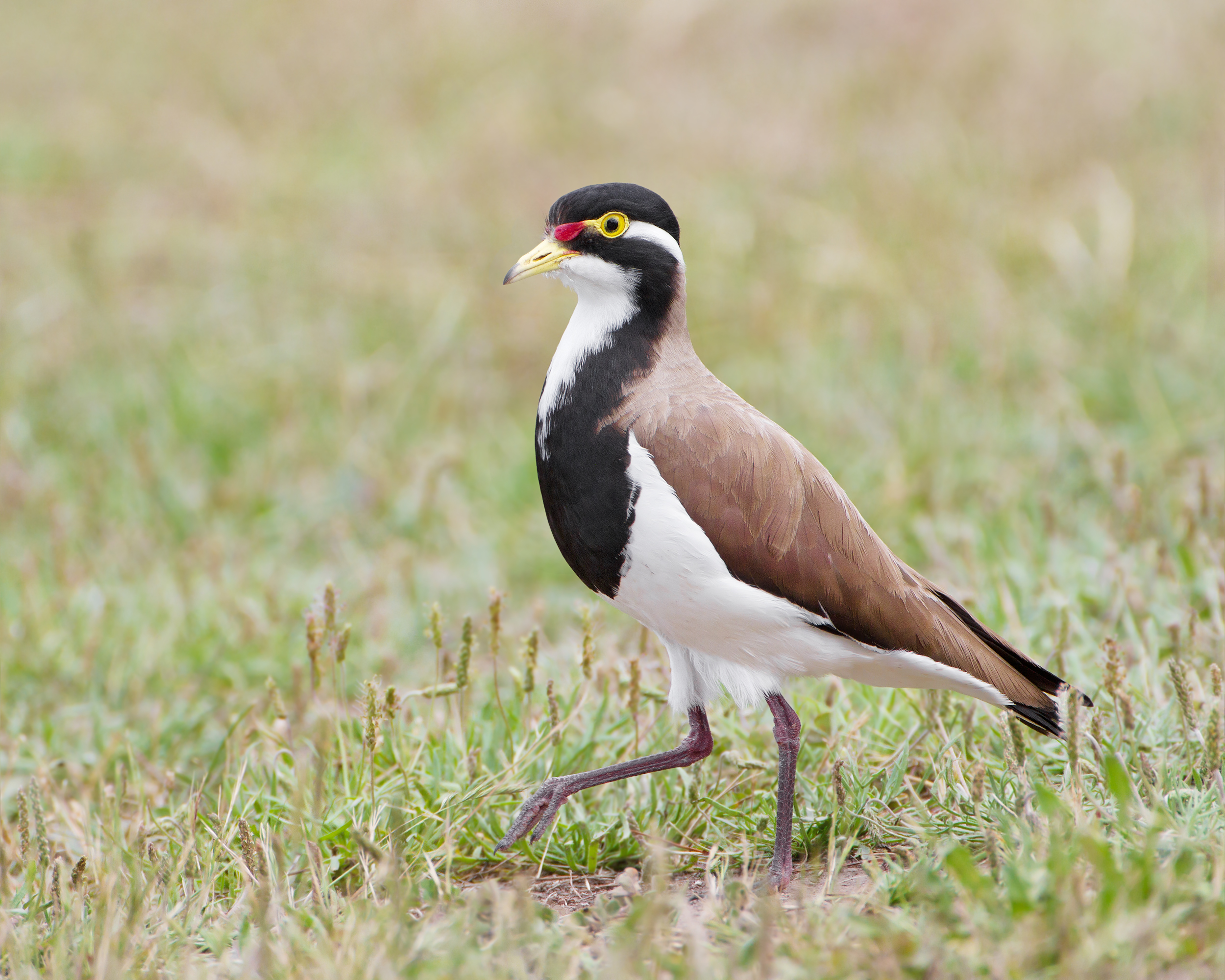 Banded Lapwing (Vanellus tricolor), Gretna, Tasmania, Australia